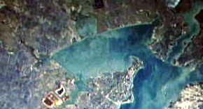 Copano Bay from Space